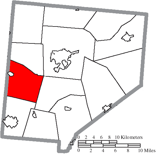 Map of the municipal and township boundaries of Clinton County, Ohio, United States, as of the 2000 census, with the location of Vernon Township highlighted. Township borders are shown only in unincorporated areas in order to differentiate incorporated and unincorporated areas more clearly.